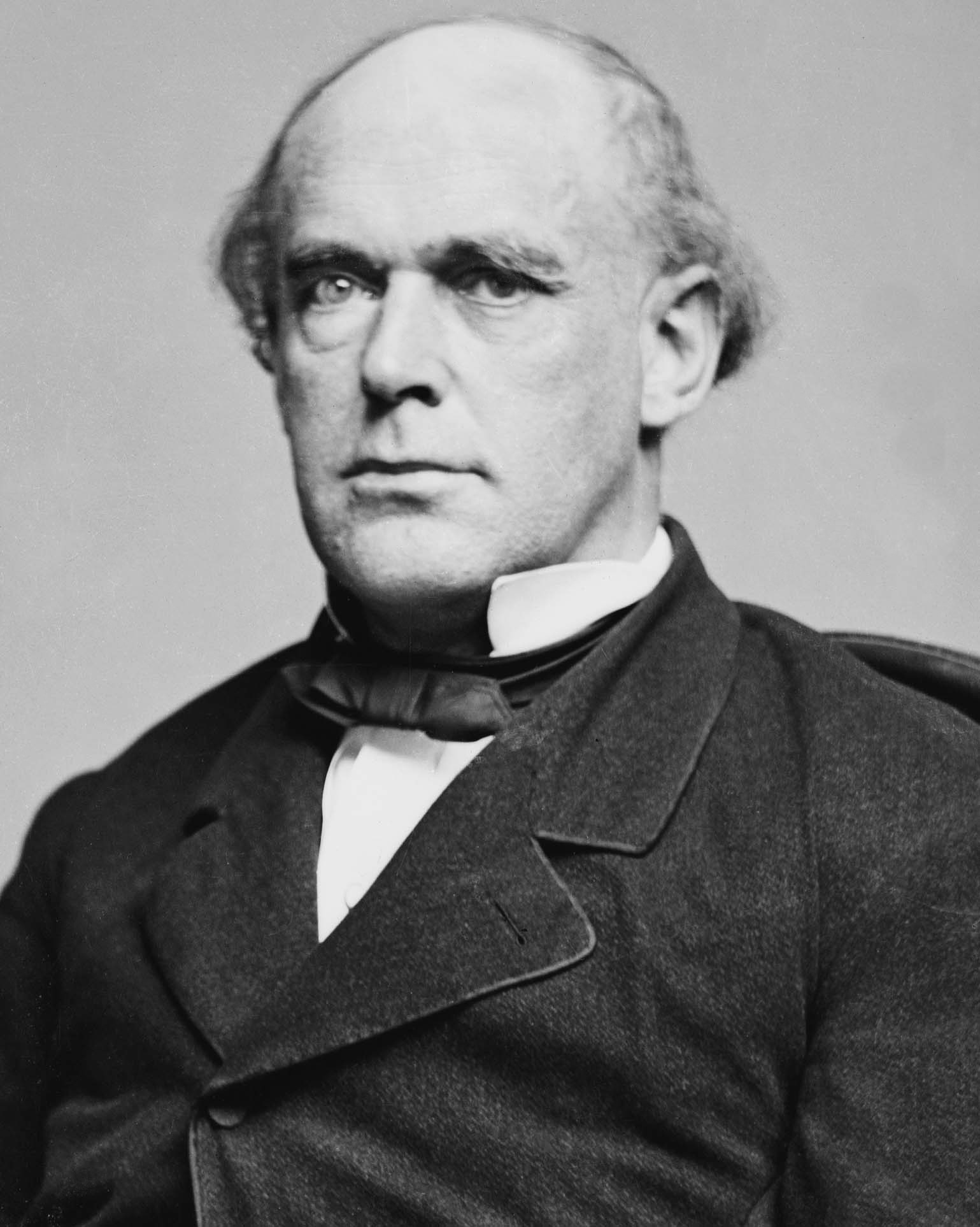 Salmon Portland Chase (13 January 1808 – 7 May 1873) was an American politician and jurist who served as United States Senator from Ohio and the 23rd Governor of Ohio; as U.S. Treasury Secretary under President Abraham Lincoln; and as the sixth Chief Justice of the United States Supreme Court.